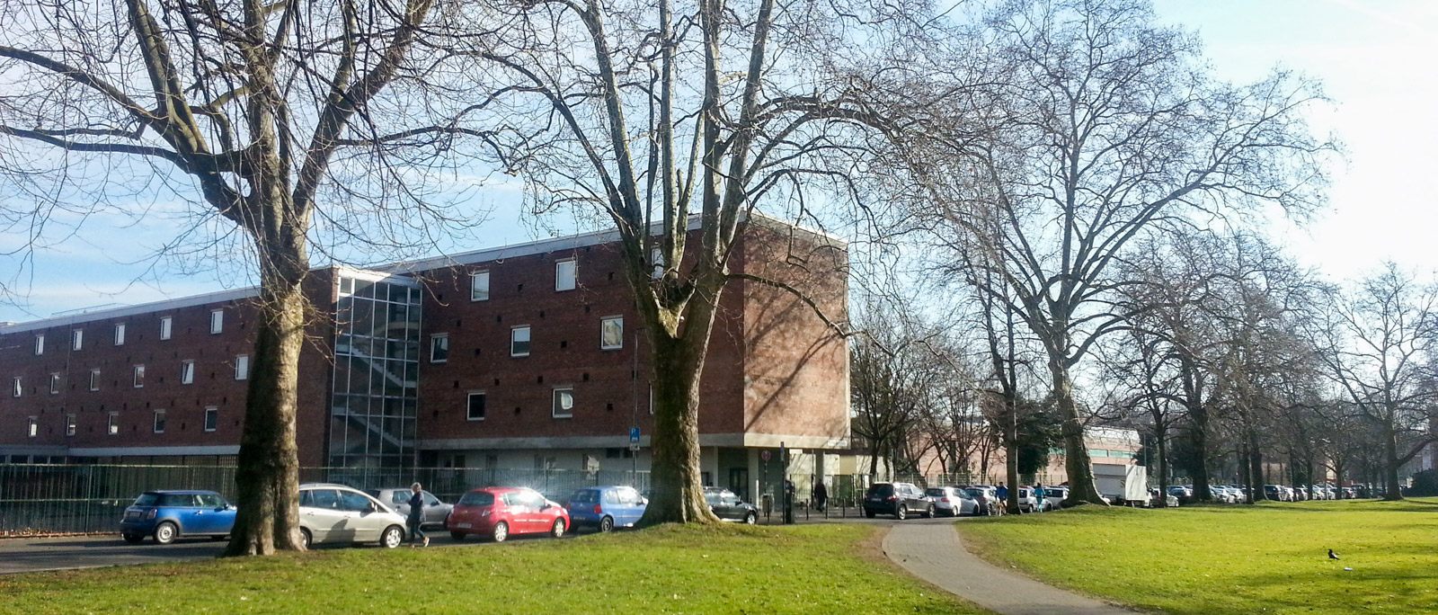 Humboldt Highschool, Cologne, Germany